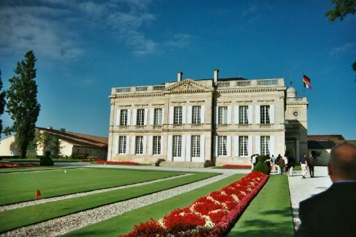 Château Gruaud-Larose